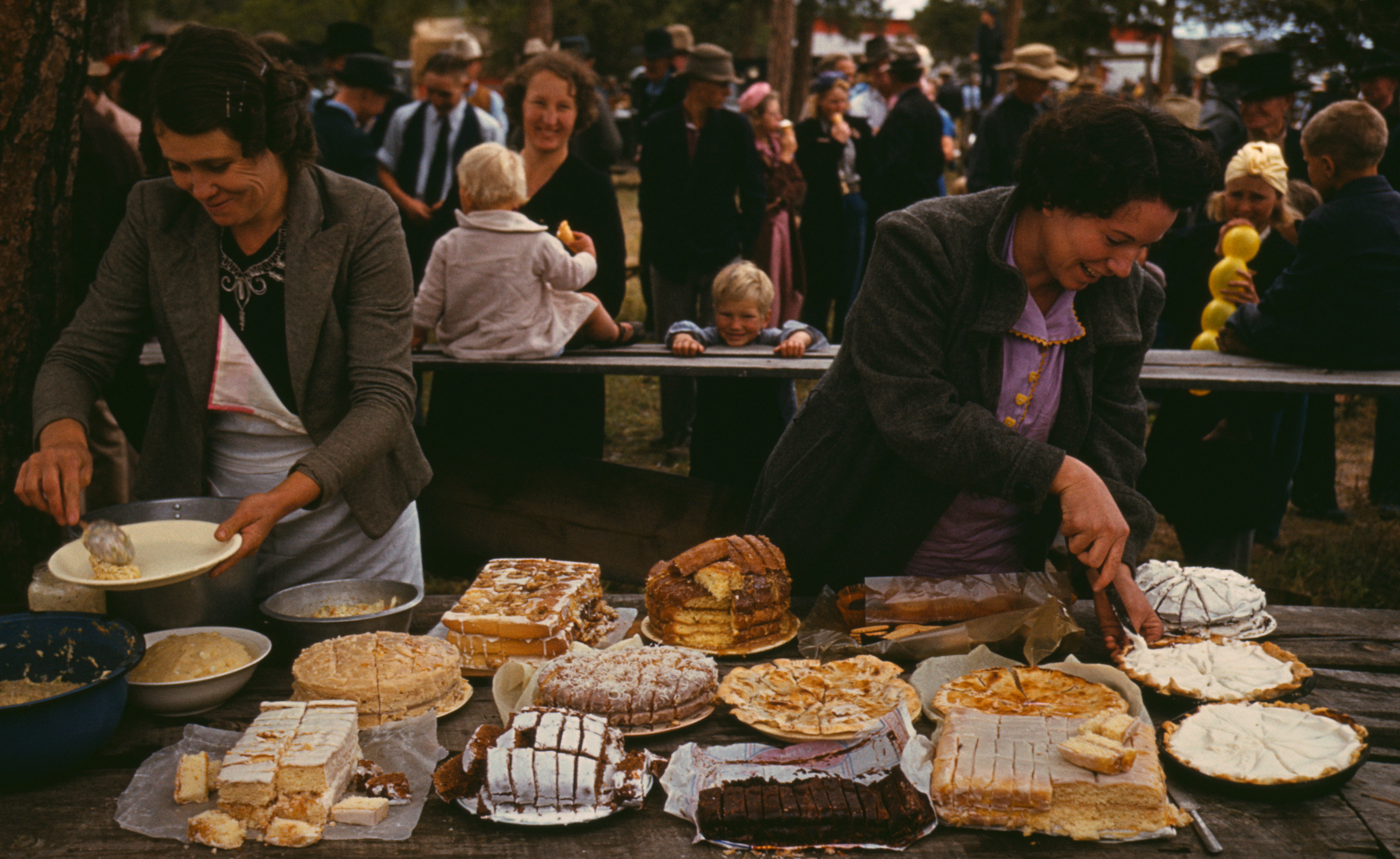 Getting ready to serve the barbeque dinner at the Pie Town, New Mexico Fair.